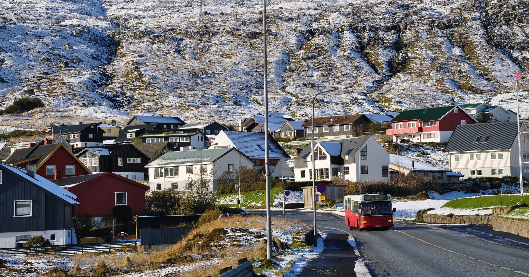 Tórshavn. City bus on the Norðari Ringvegur, close to the Nordic House.